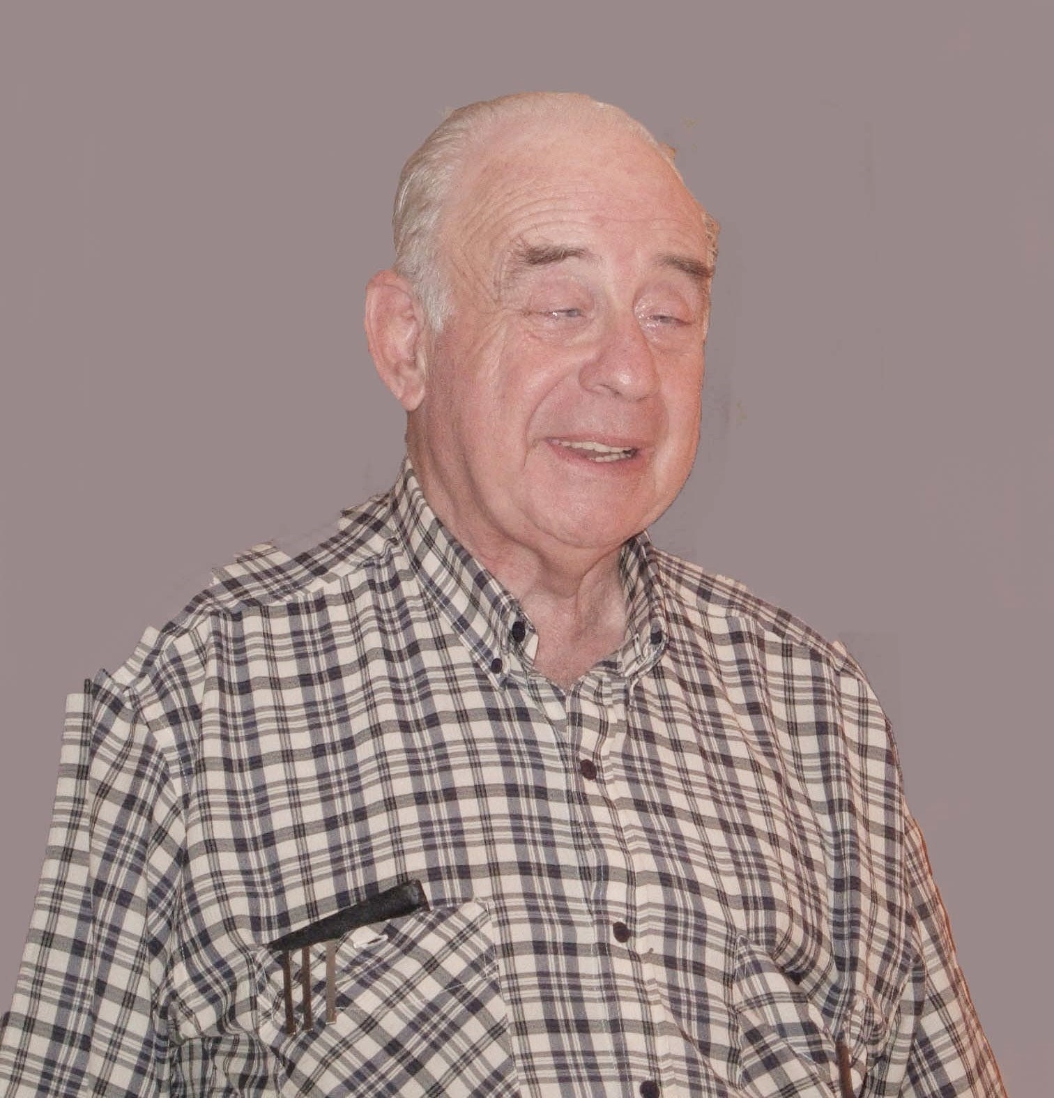 the photo of Moshe Nes-el for his Value in Wikipedia